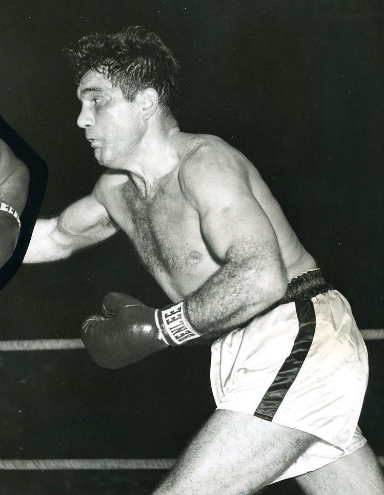 Archie Moore & Joey Maxim 1952 Press Photo Boxing Light Heavyweight Title Fight